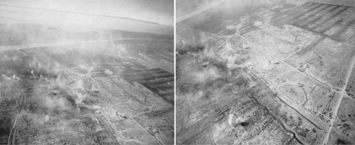 Photographs taken by a Mohajer-1 UAV used for spotting artillery impacts during Karbala-5